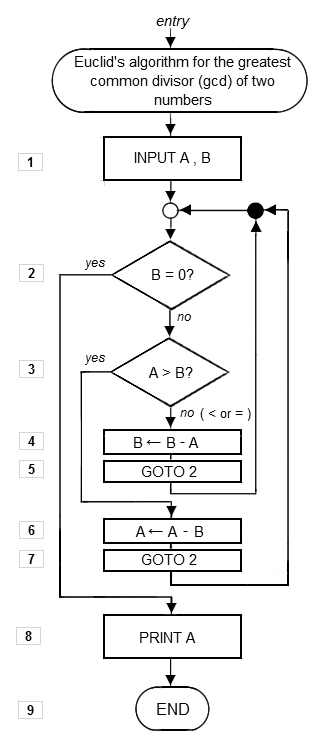 Euclid's algorithm for computing the greatest common divisor of two numbers, drawn as a flowchart.